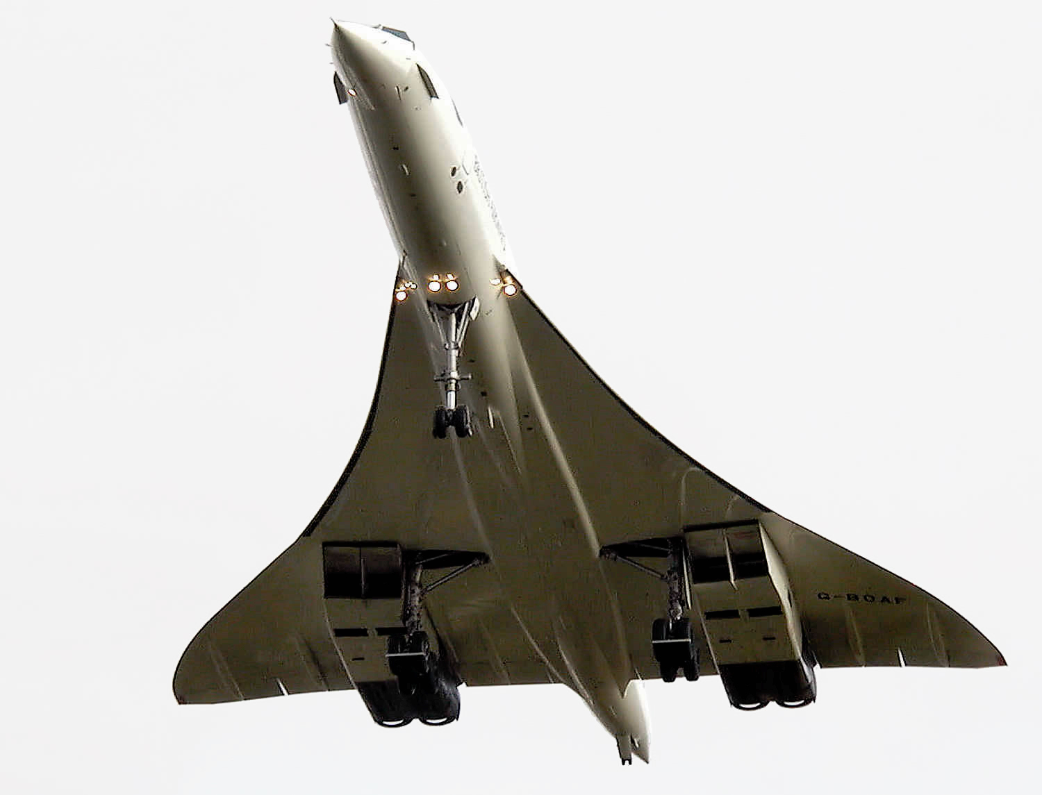 Concorde 216 (G-BOAF) passes over the A38 road on the final ever Concorde landing, at Filton Airfield, Bristol, England.